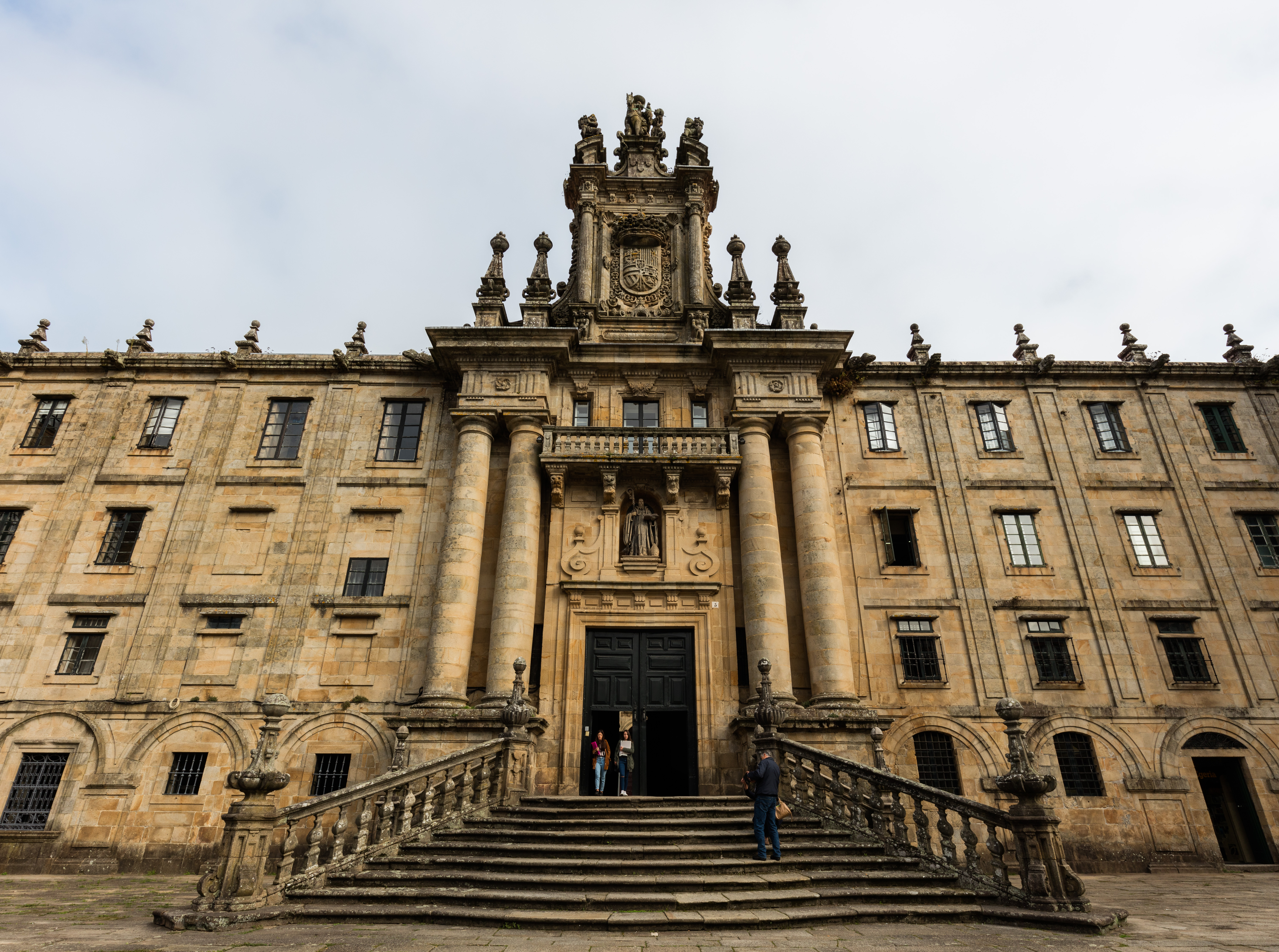 San Martin Monastery, Santiago de Compostela, Spain